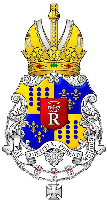 Coat of Arms - Holy Empire of Reunion